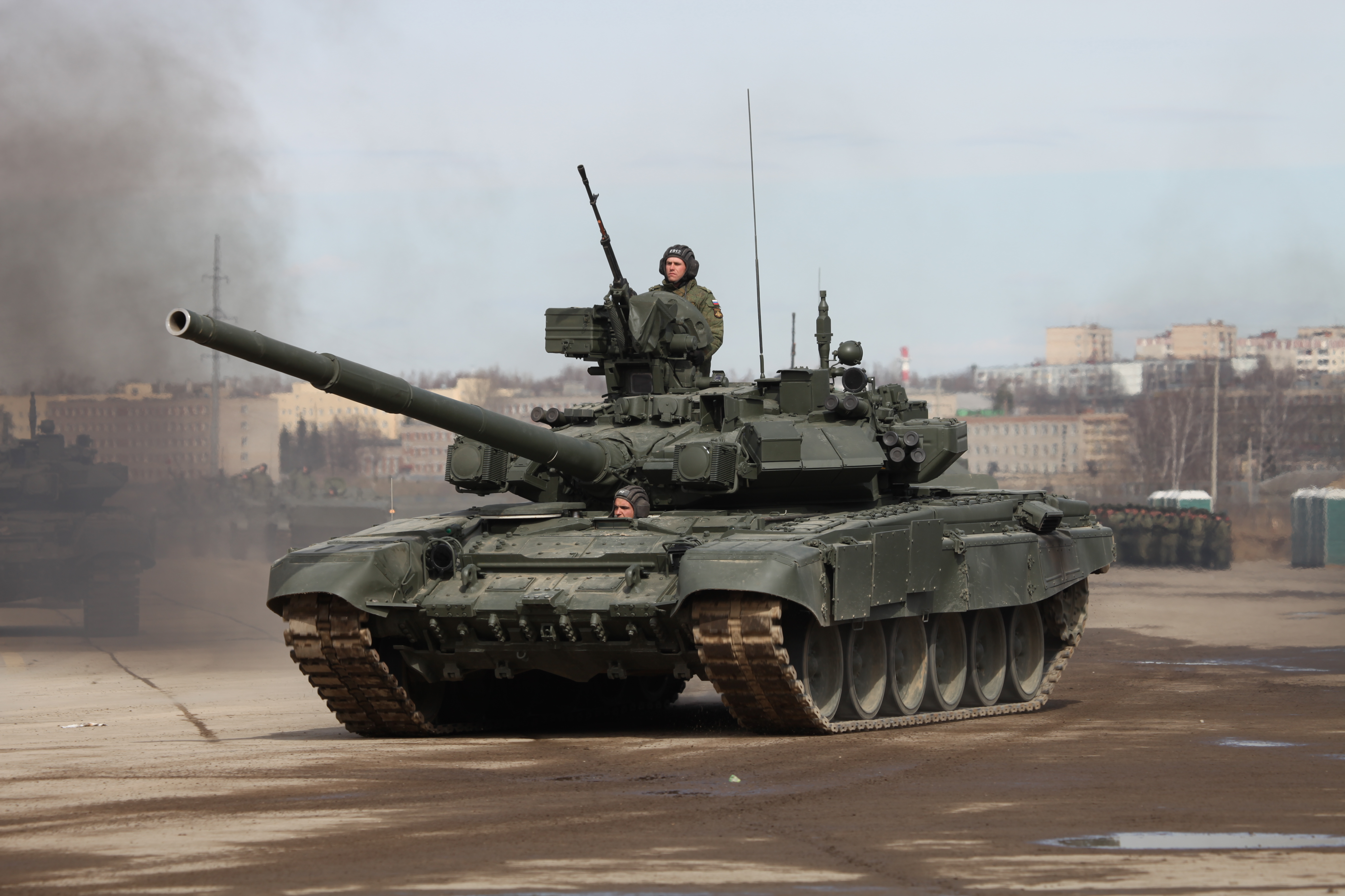 T-90A main battle tank